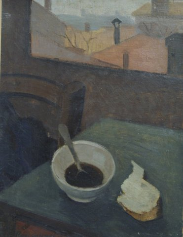 Edmond Boissonnet